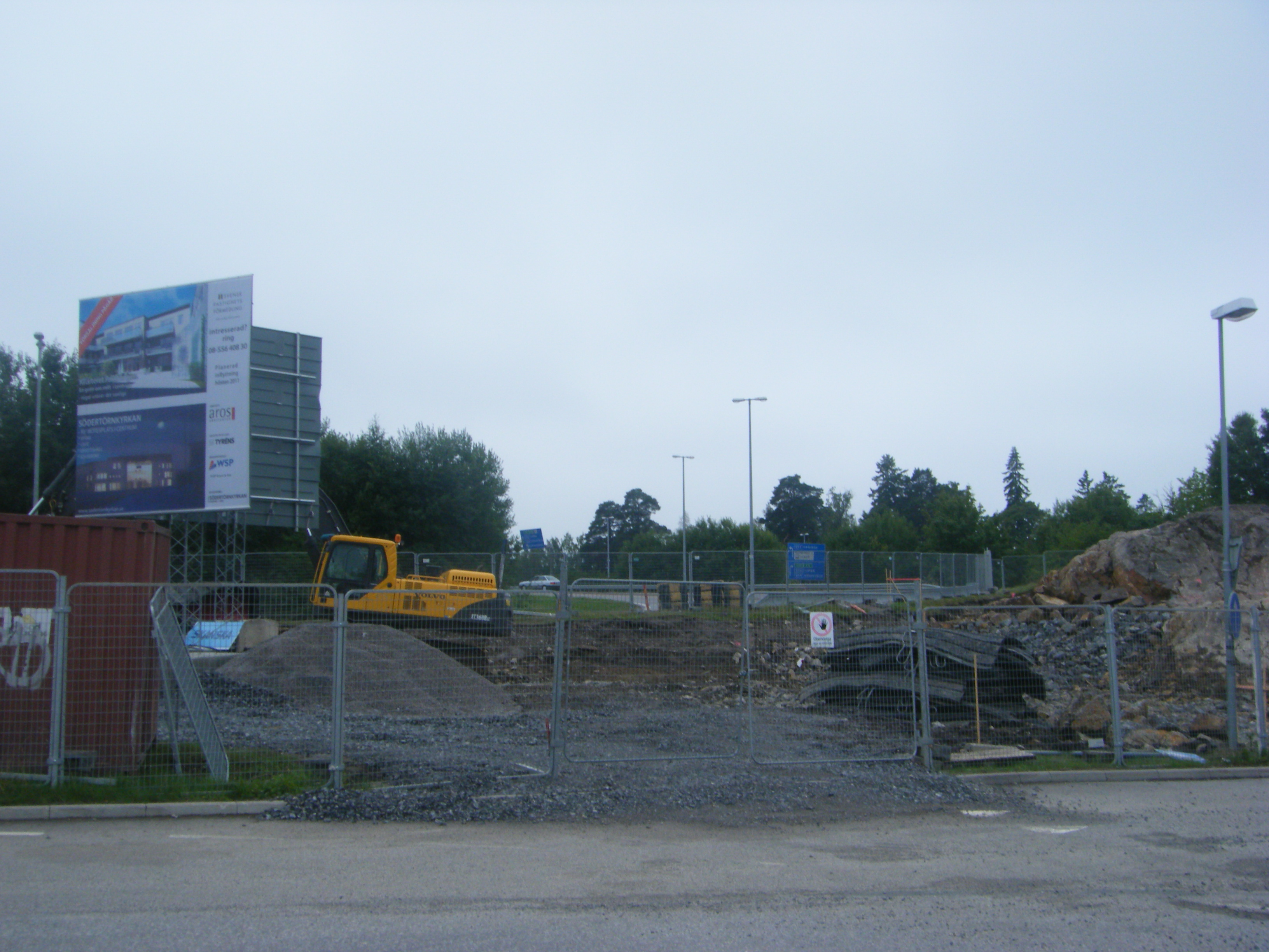 Södertörnchurch under construction